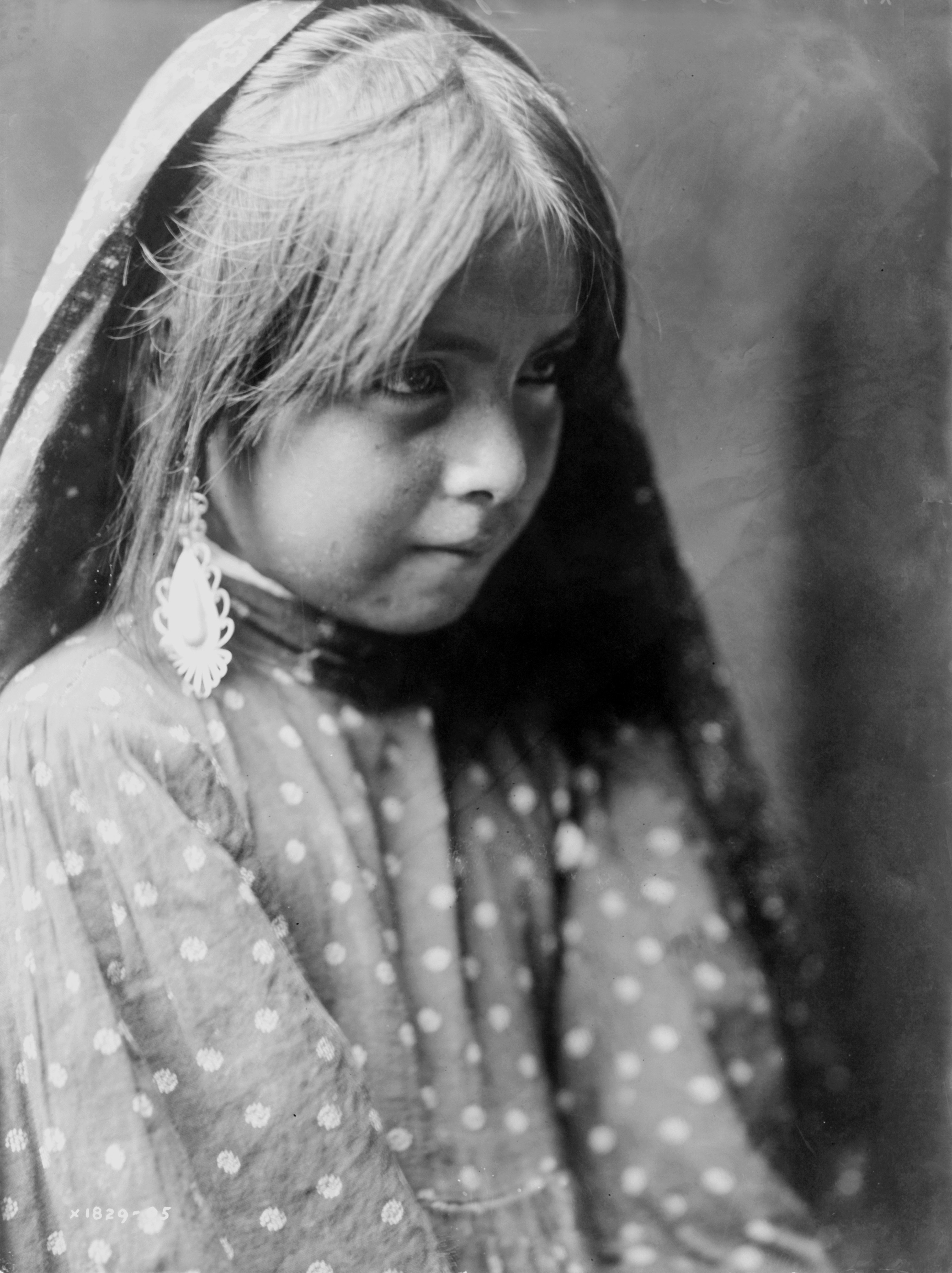 A Nambé girl (most likely a Tewa girl from Nambé Pueblo, New Mexico). Published in: The North American Indian / Edward S. Curtis. [Seattle, Wash.] : Edward S. Curtis, 1907-30, v. 17, p. 136.